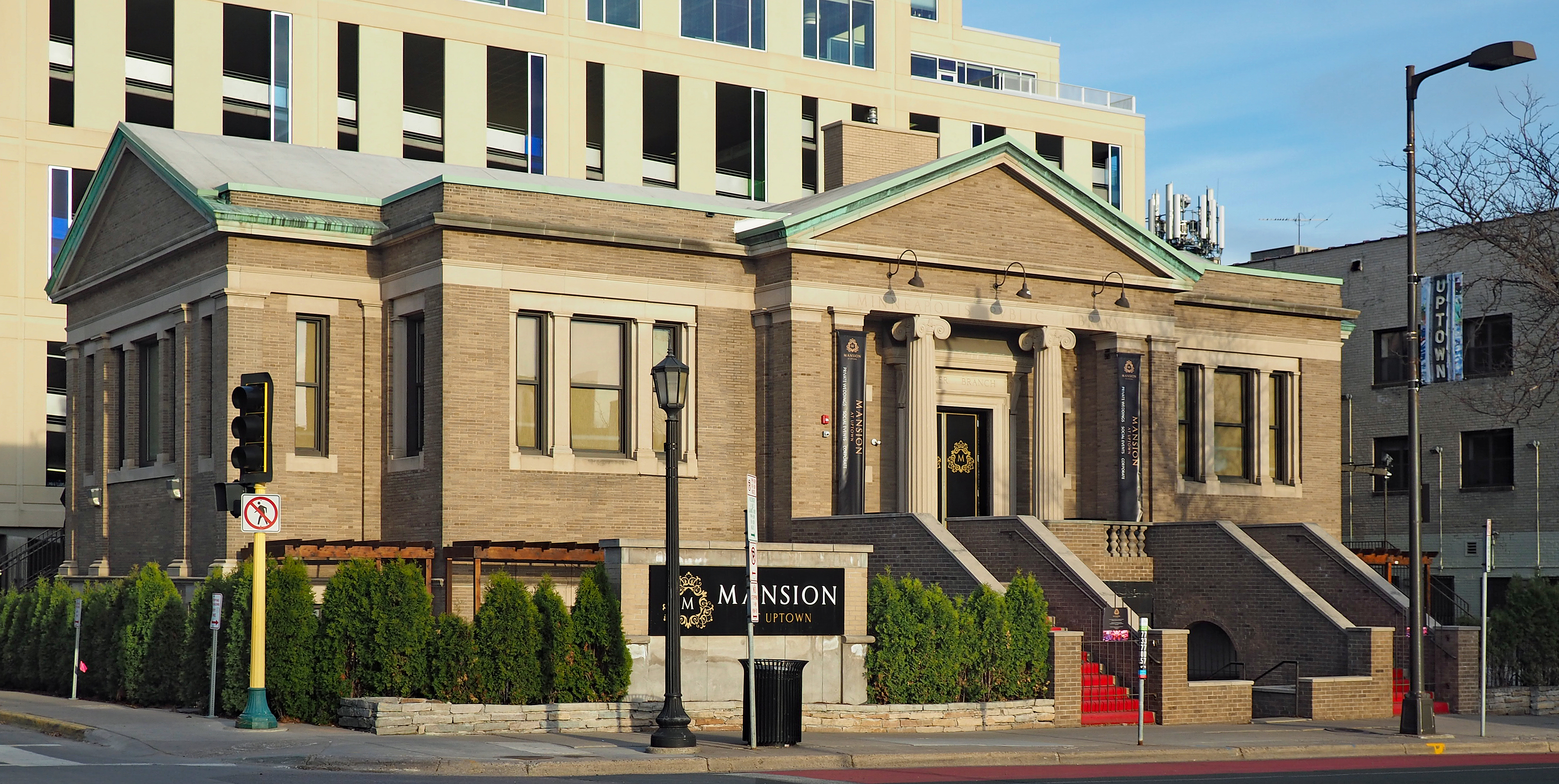 The former Walker Branch Library (now the Mansion at Uptown), 2901 Hennepin Ave S, Minneapolis, Minnesota, USA. Viewed from the northwest.